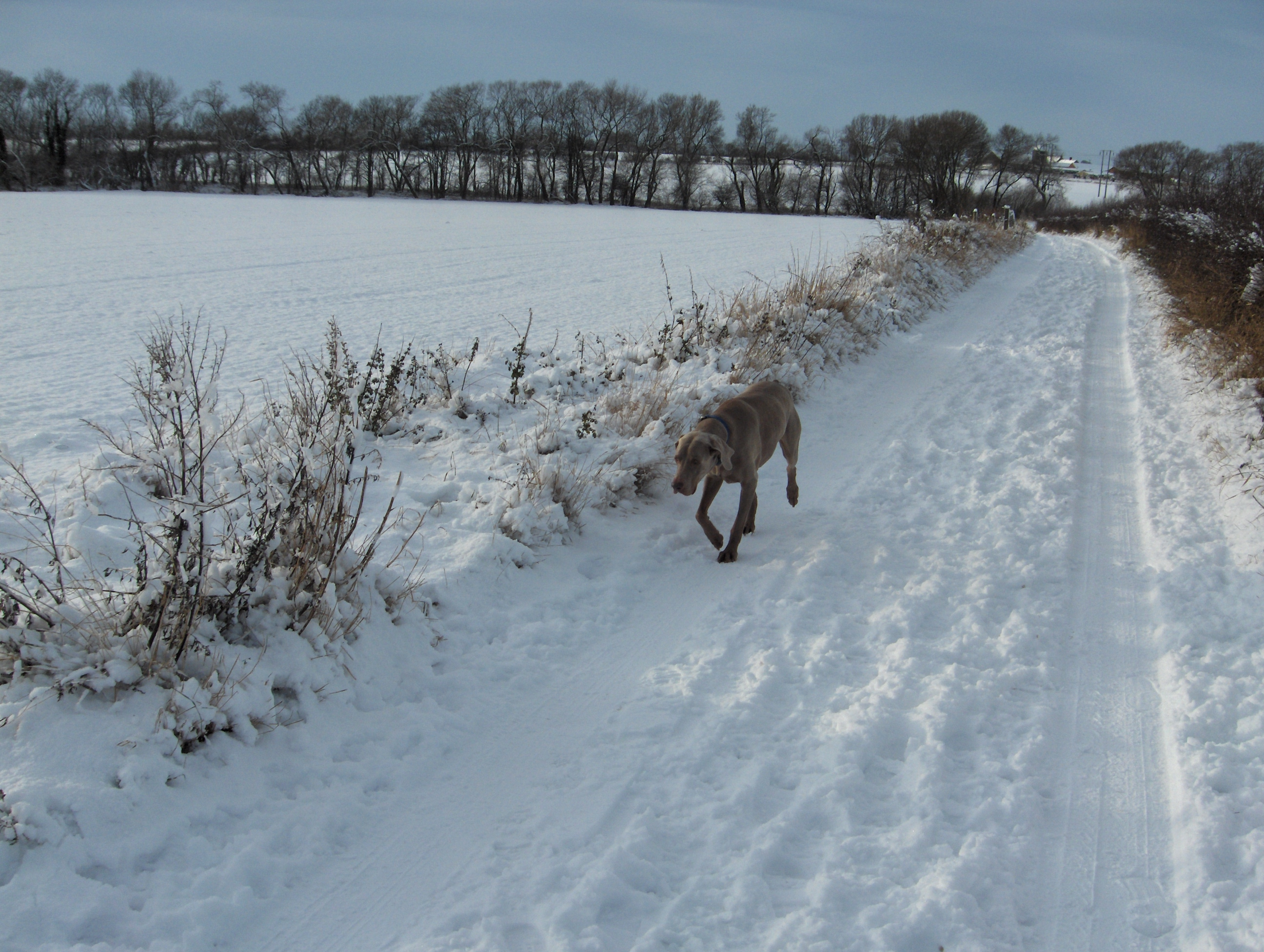 Male weimaraner named louie in the snow following a scent trail